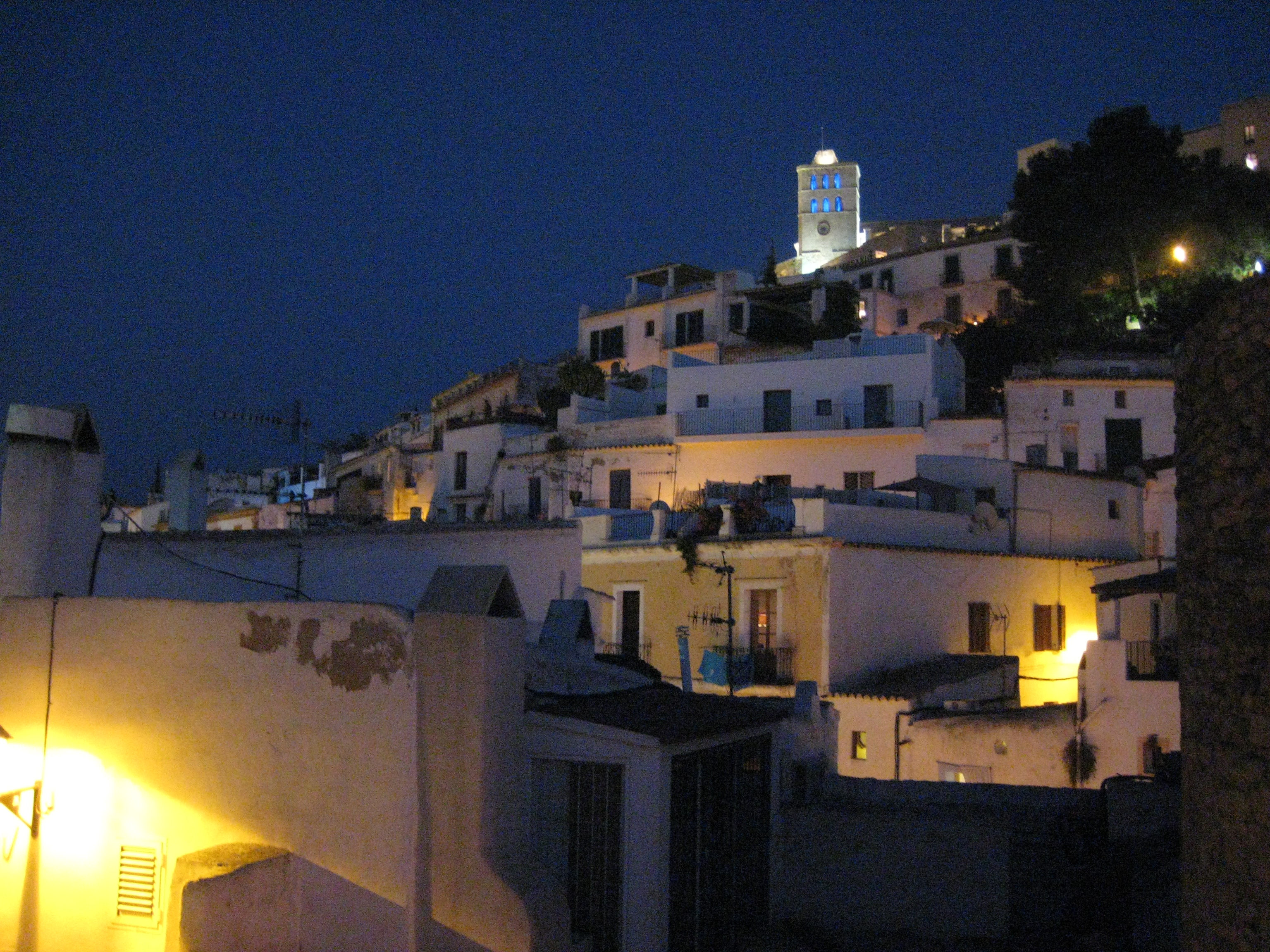 view to Ibiza at night